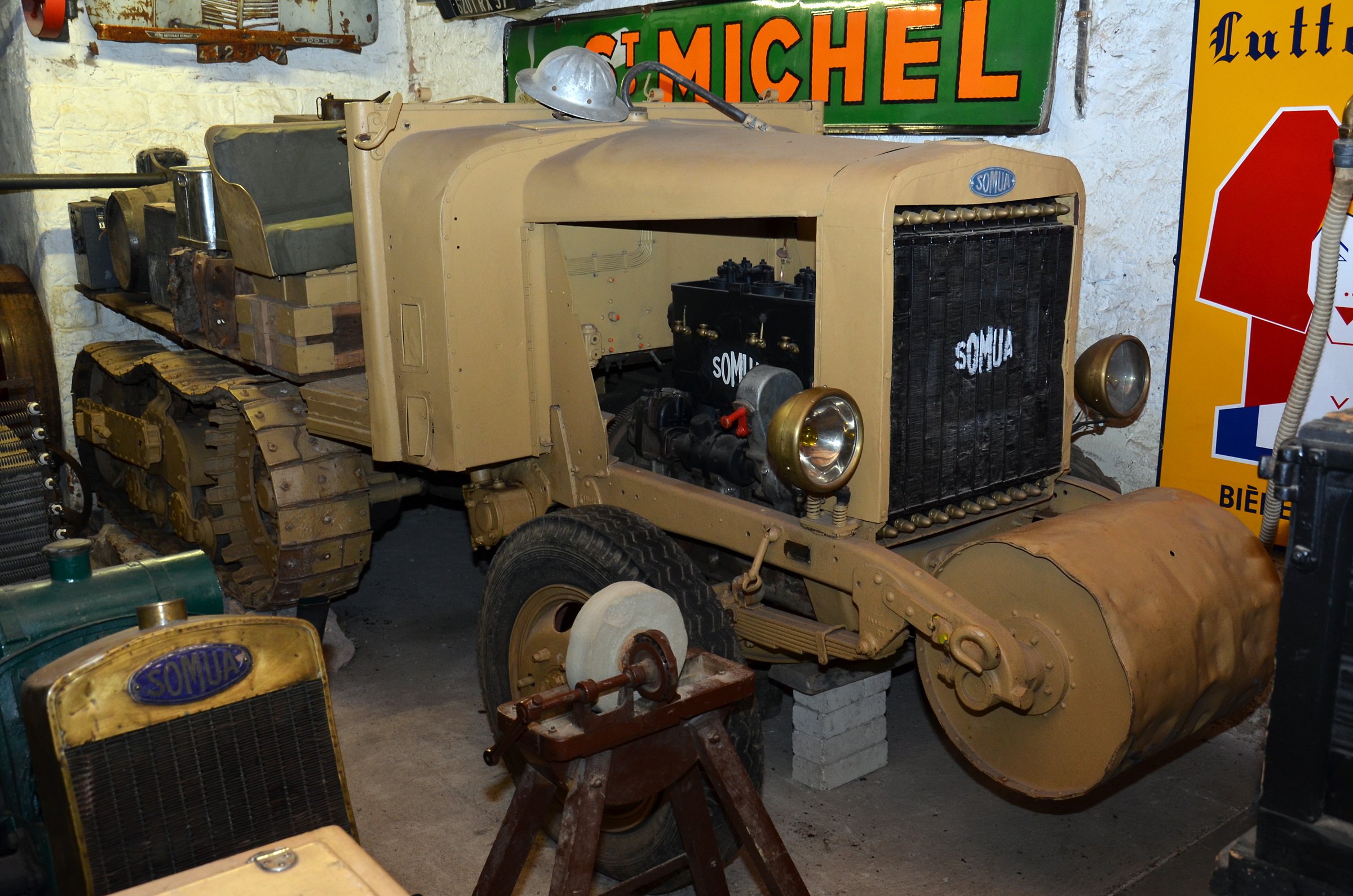 Somua